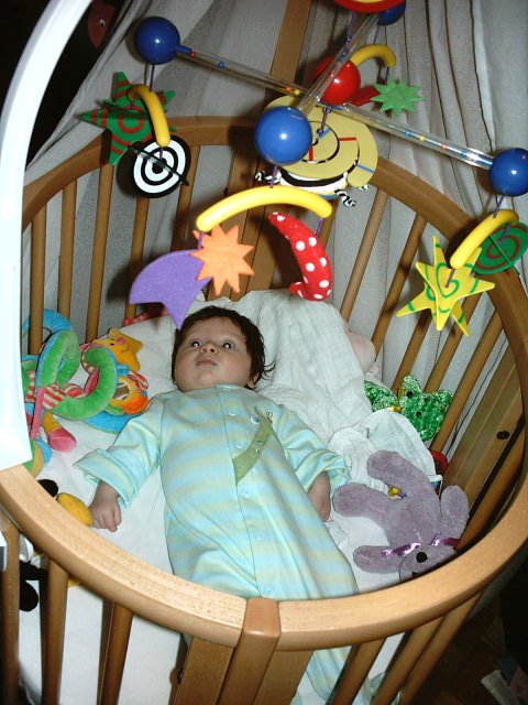 Mark's mom got Noéma this colourful mobile.